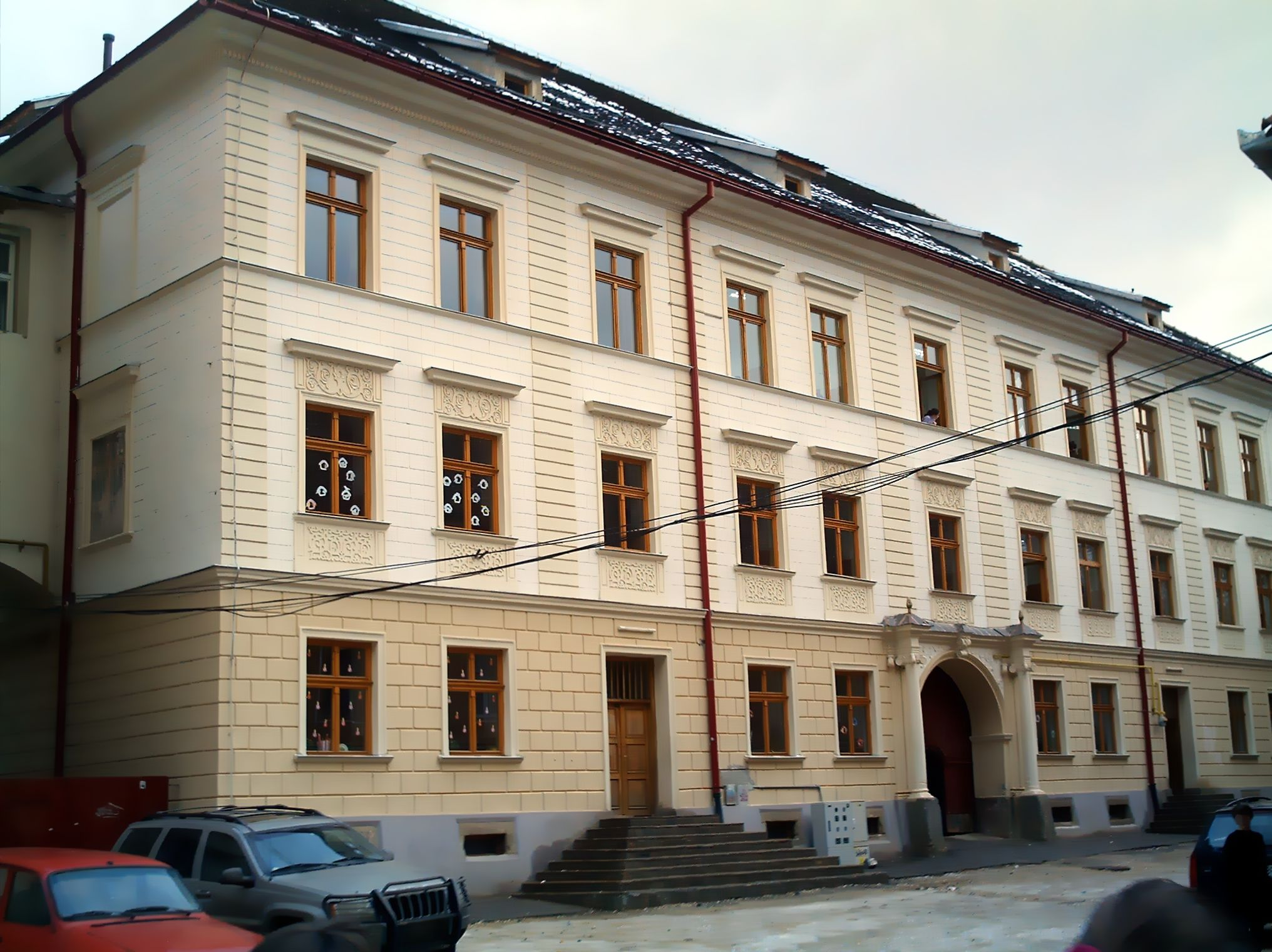 Johannes Honterus college in Brasov, building "C".